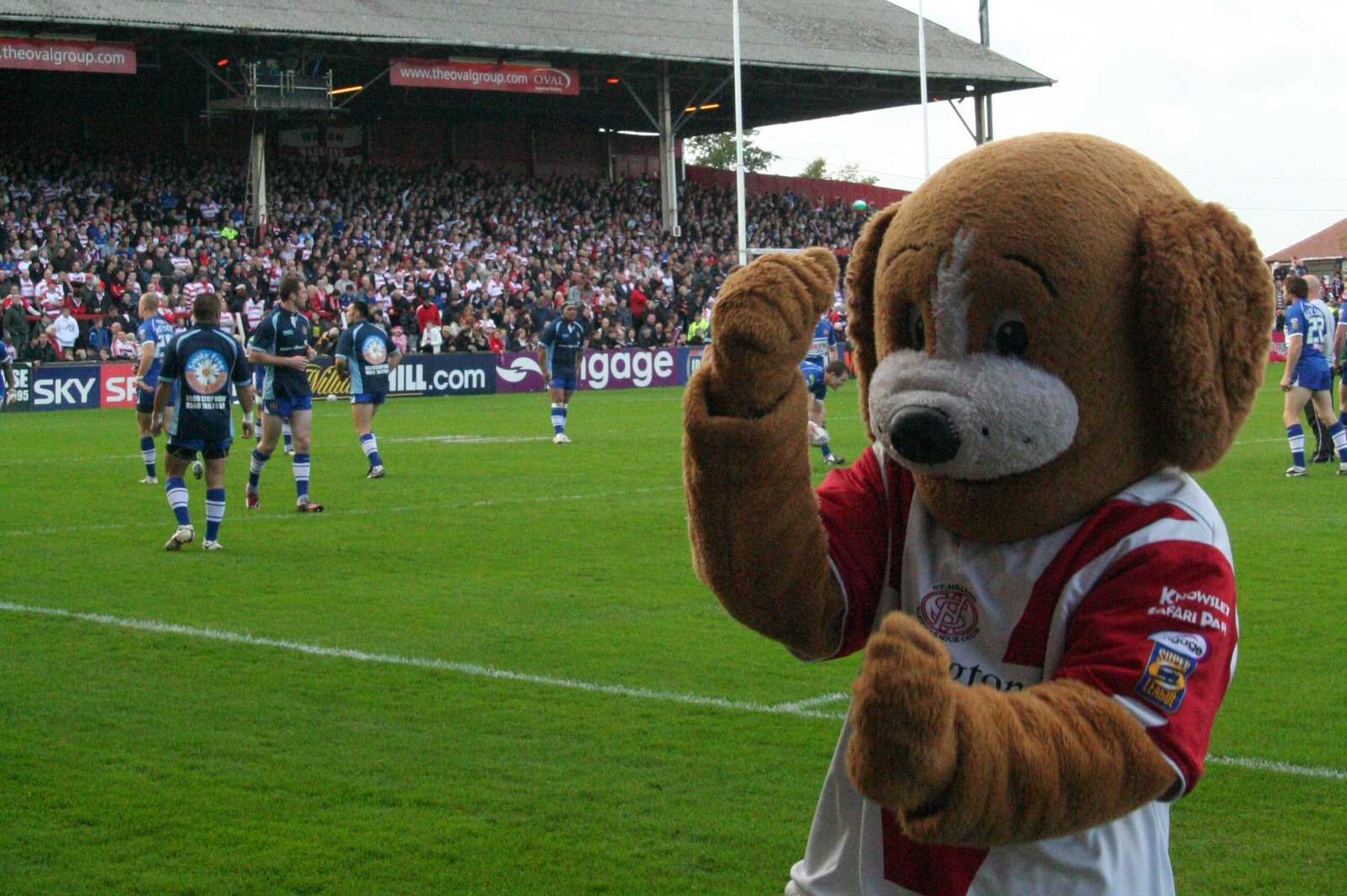 Mascot of English rugby league club, St. Helens.